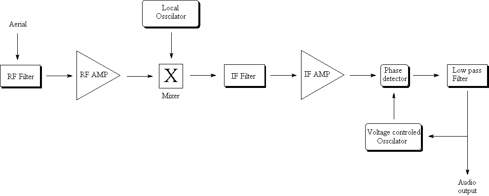 A diagram of a cheap FM radio set which is a superhet without a AGC loop.